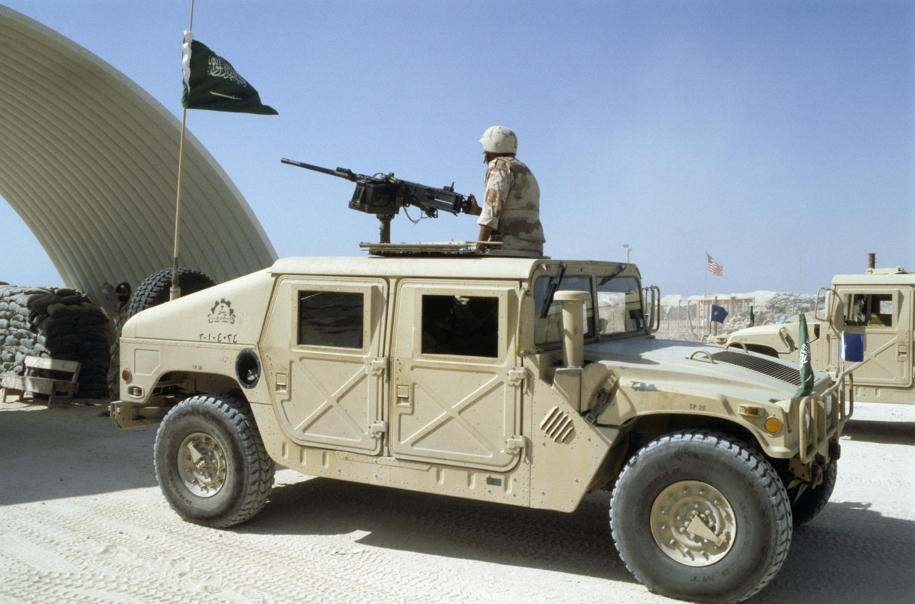 A Saudi Arabian High-Mobility Multipurpose Wheeled Vehicle (HMMWV) with a QCB machine gun mounted on top depart for the seaport of Mogadishu. The Saudis are providing support for UNOSOM II.